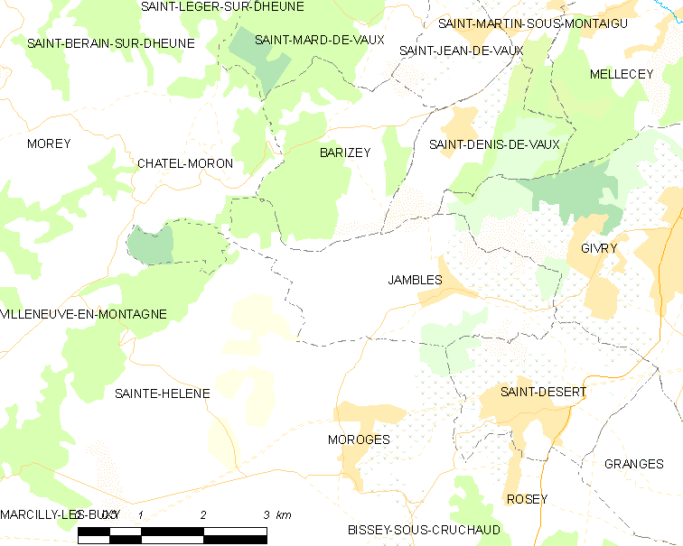 Map of French municipality